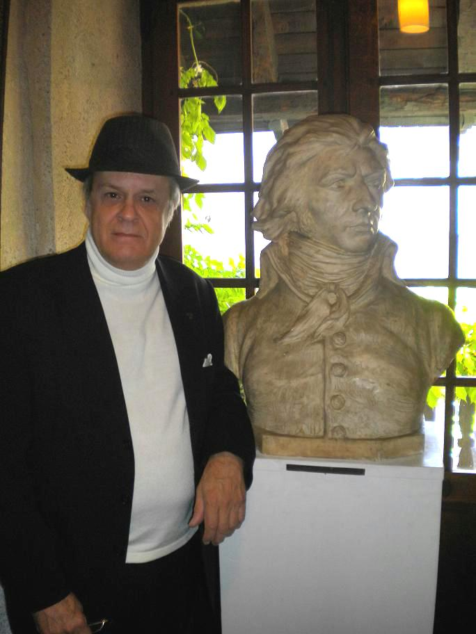 Jacob Truedson Demitz and bust of King Carl XIV John of Sweden-Norway (before he was Swedish royalty) at Bernadotte Museum, as released by image creator Ristesson; Place: Rue Tran, Pau, France